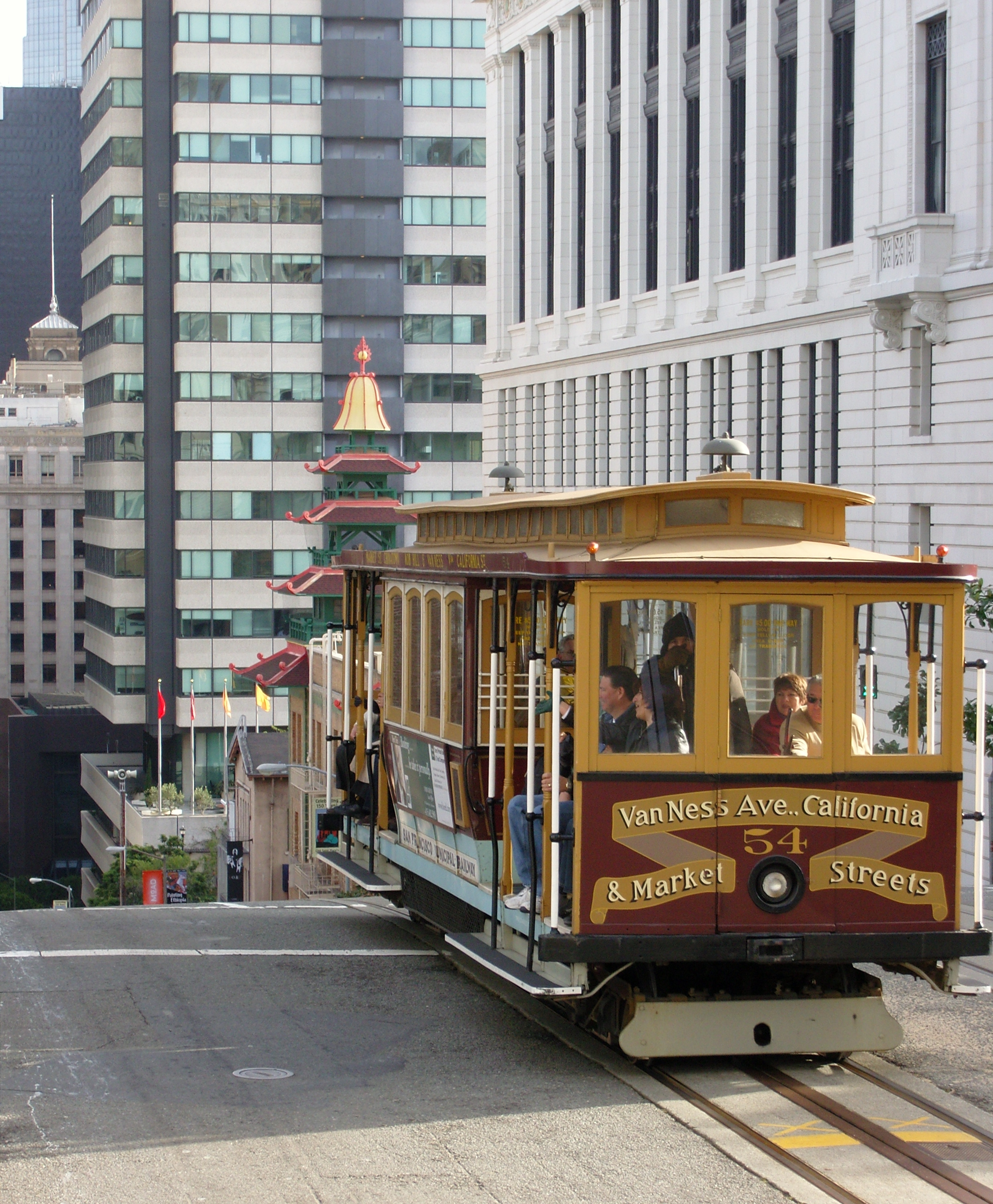 Cable car coming uphill from Chinatown at San Francisco, California.